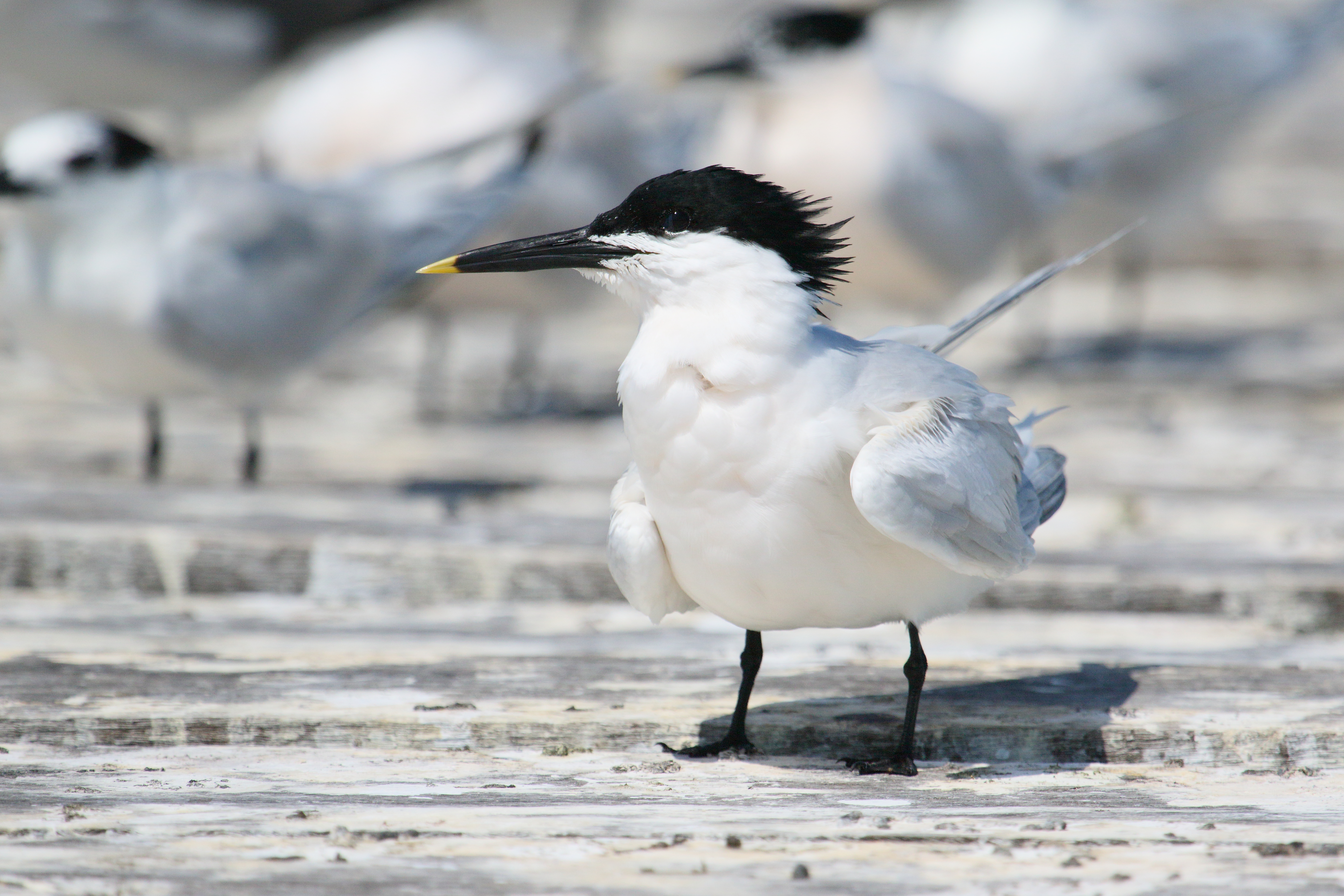 Cabot's Tern Thalasseus acuflavidus, Caye Caulker, Belize